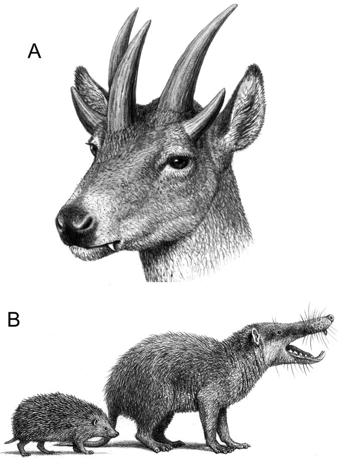 Figure 2: Hoplitomeryx and the insular fauna of Gargano. (A) Life reconstruction of Hoplitomeryx showing the presence of five cranial appendages (two paired postorbital ones, and an unpaired appendage projecting between the eyes on the caudal part of the nasals) and large, flaring sabre-like upper canines. (B) Example of the highly endemized association of Gargano, with a reconstructed life appearance of the giant hedgehog Deinogalerix (in scale with modern Erinaceus europaeus). Artwork by Mauricio Antón.